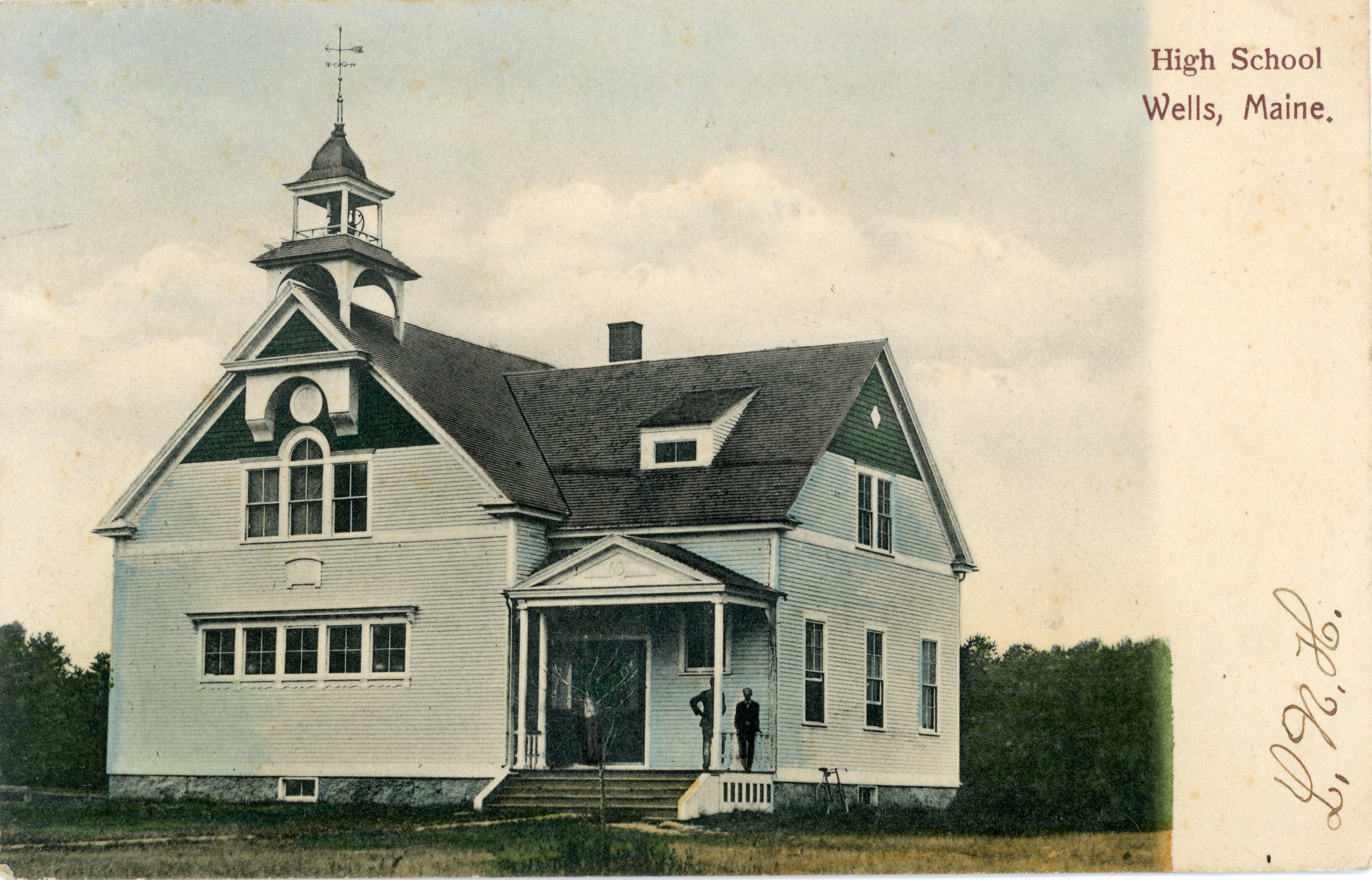 Wells High School, Wells, Maine; from a 1903 postcard